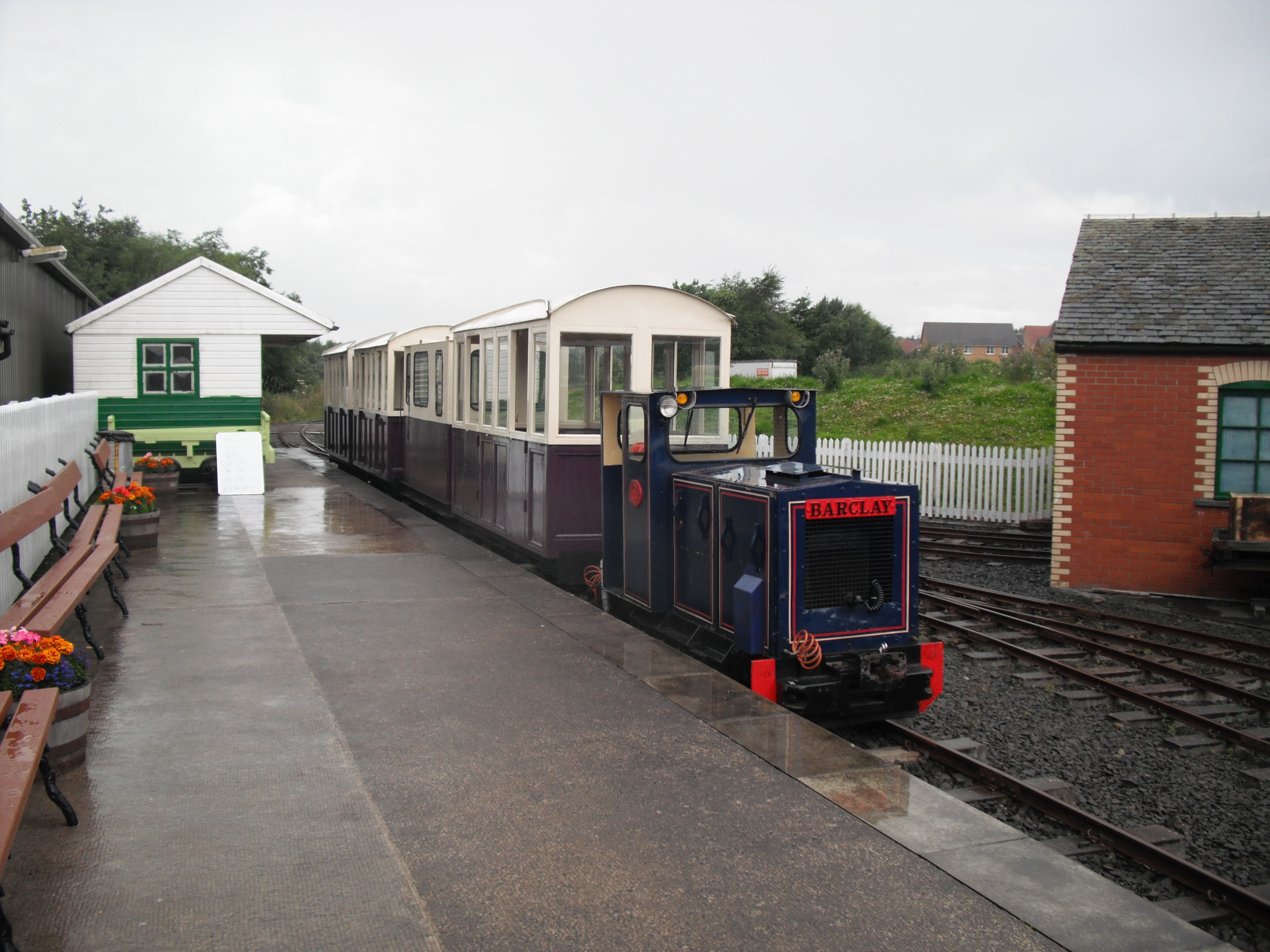 A shot of the barclay loco and passenger train on the Almond Valley Light Railway, Livingston, Scotland.A shot of the barclay loco and passenger train on the Almond Valley Light Railway, Livingston, Scotland.